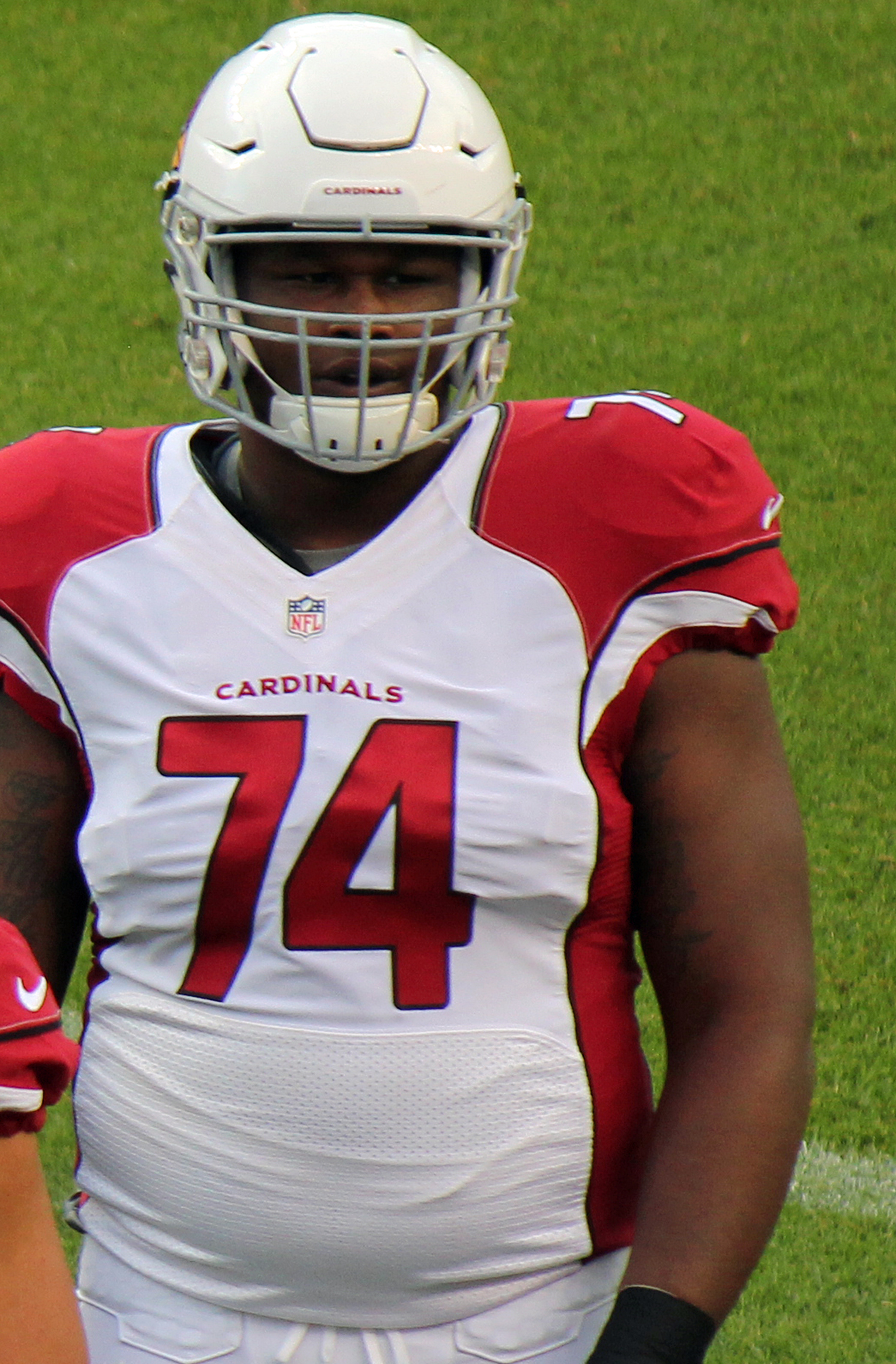 D. J. Humphries, a player on the National Football League.